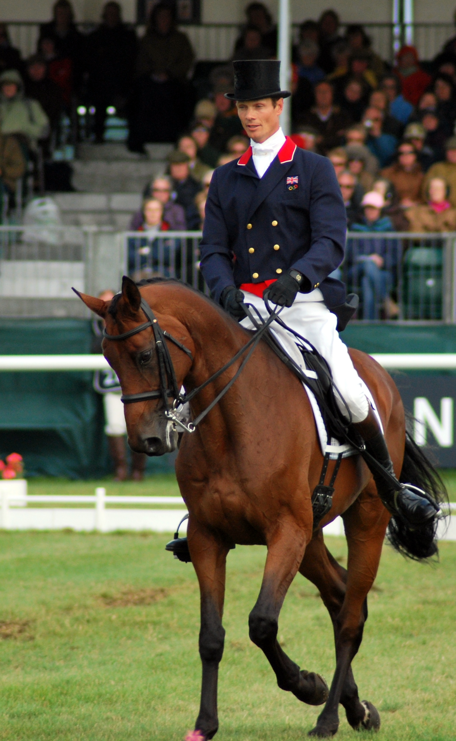 William Fox Pitt competing in Dressage at Burghley September 2009